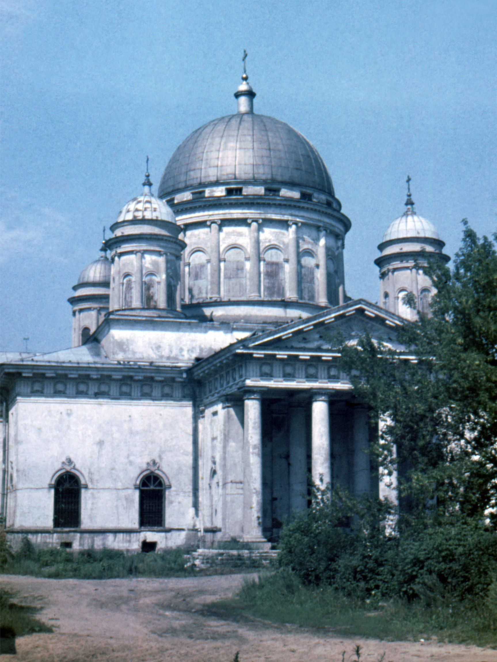 Gorky City. Old Fair Church of the Transfiguration